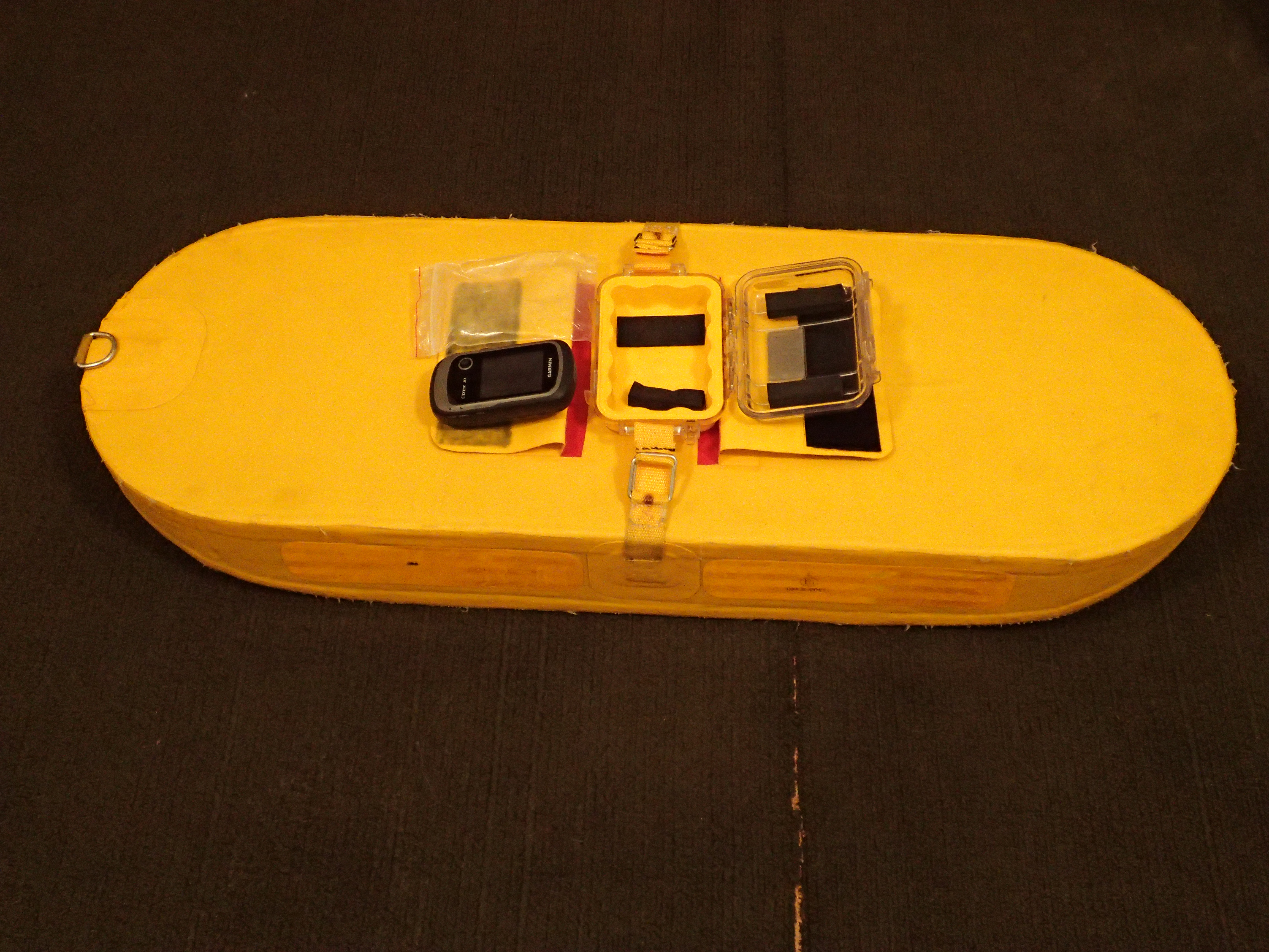 Survey SMB with GPS box fitted and GPS - top view